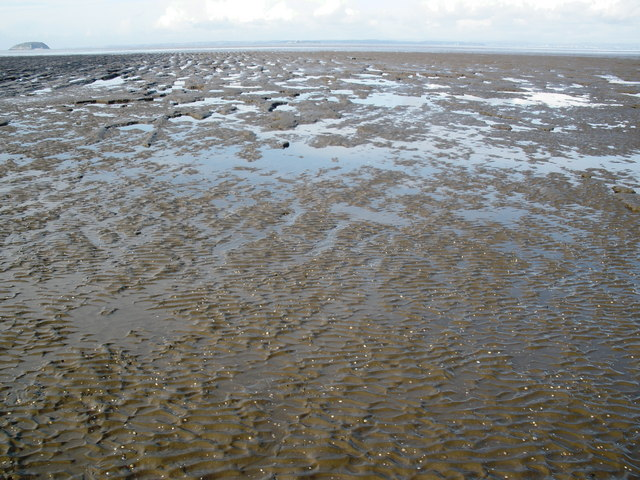 Mudflats, at Weston Bay. Where angels fear to tread! (see 557248)